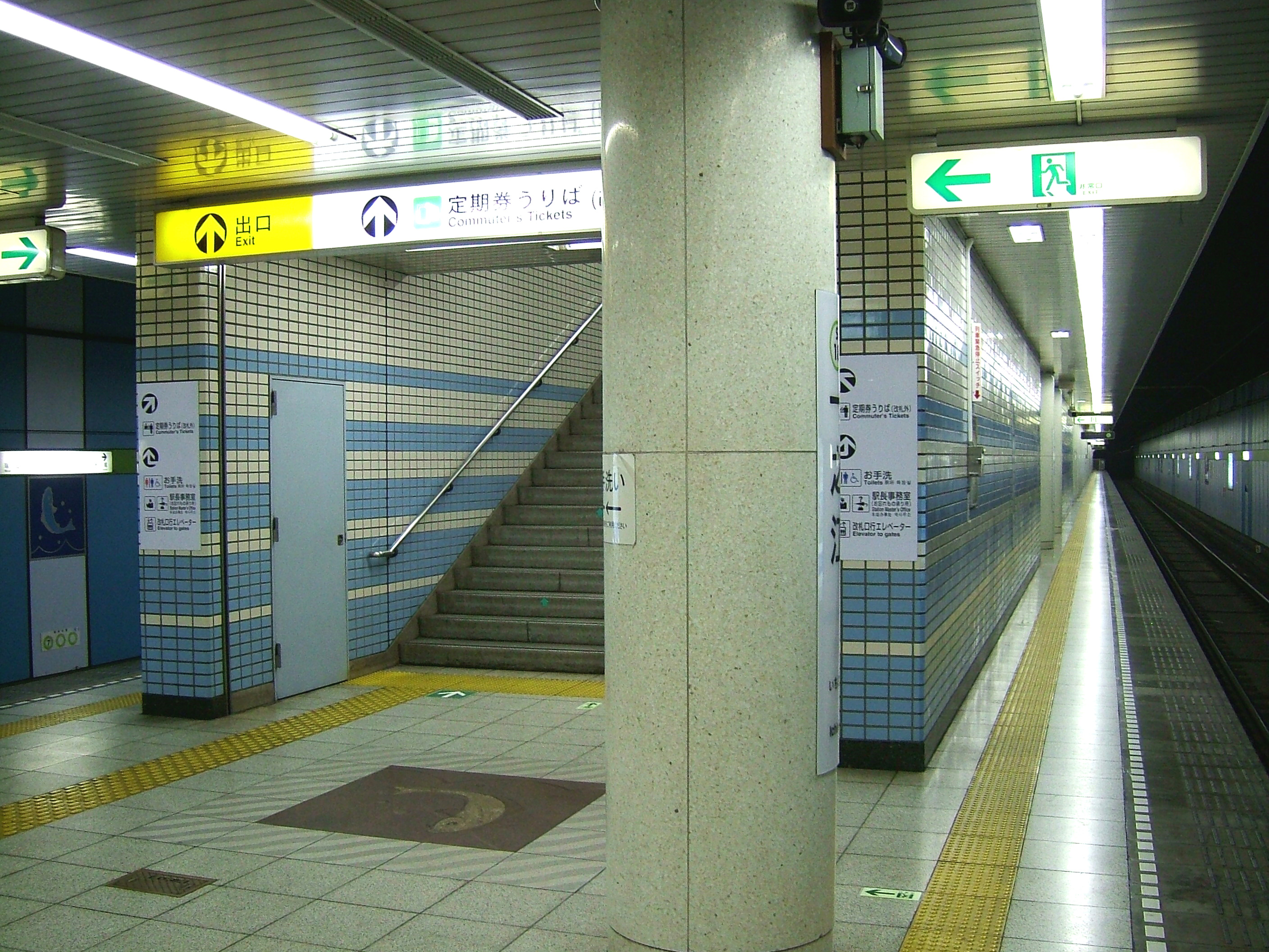 The platform at Ichinoe Station on the Toei Shinjuku Line in Edogawa city, Tokyo, Japan